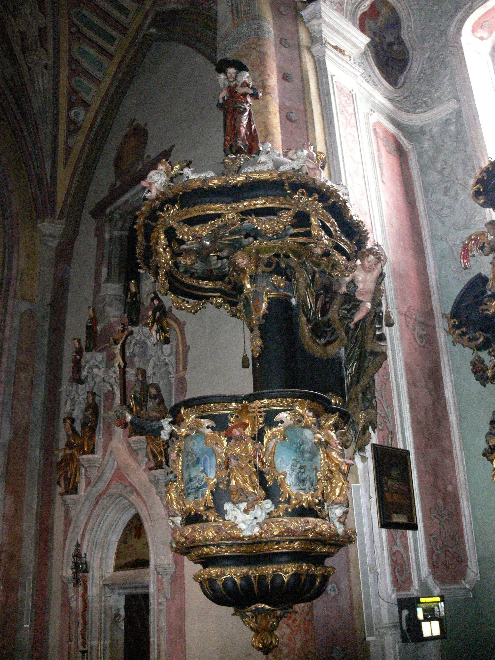 Sankt Wolfgang im Salzkammergut parish church ( Upper Austria ). Baroque pulpit ( 1706 ) by Meinrad Guggenbichler.